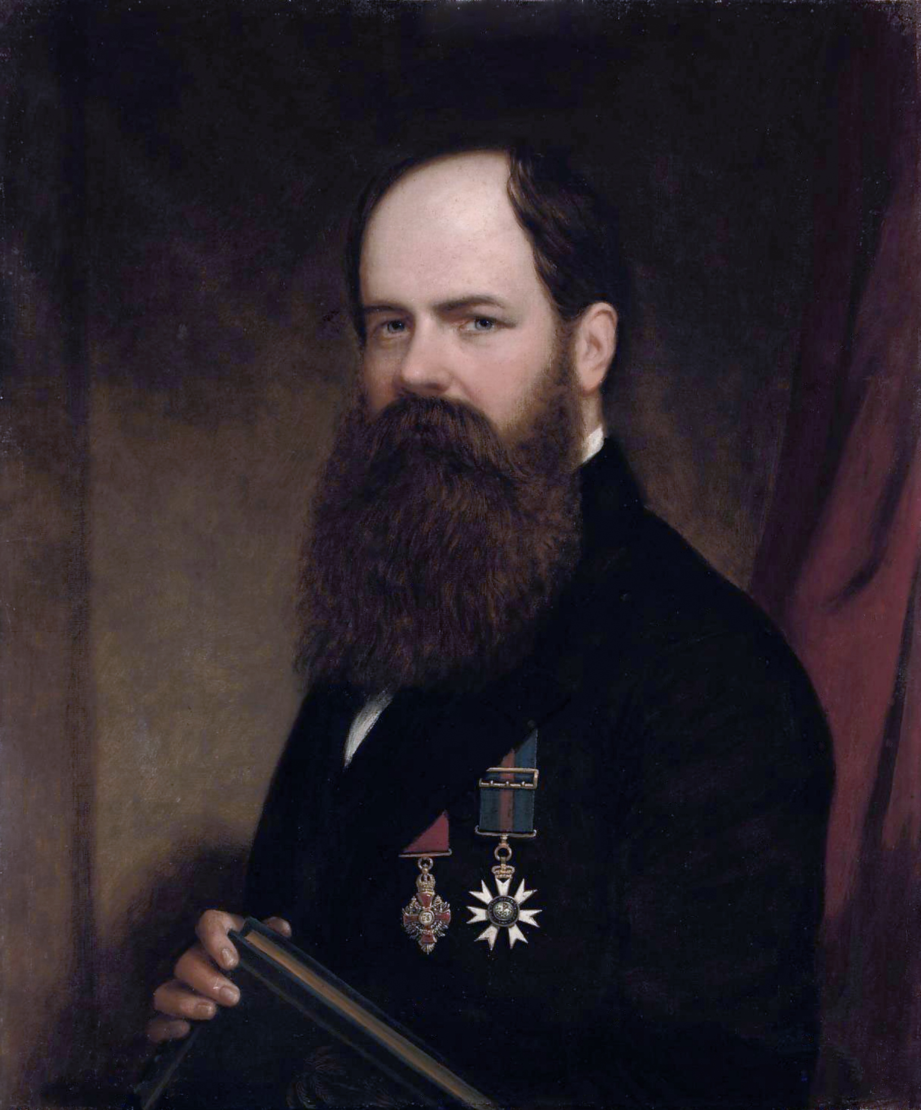 Portrait of Sir Walter Lawry Buller, N.Z.C., K.C.M.G., F.R.S.